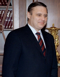 THE KREMLIN, MOSCOW. First Deputy Prime Minister and Finance Minister Mikhail Kasyanov.